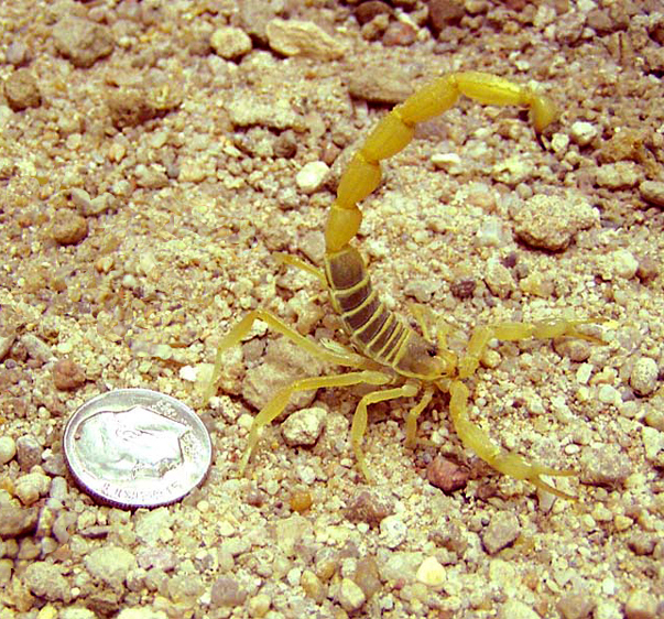 Three of the most common scorpions found on TALLIL AIR BASE, Iraq: from left, Scorpio maurus; top, Mesobuthus eupeus; right, the aggressive Odontobuthus doriae.